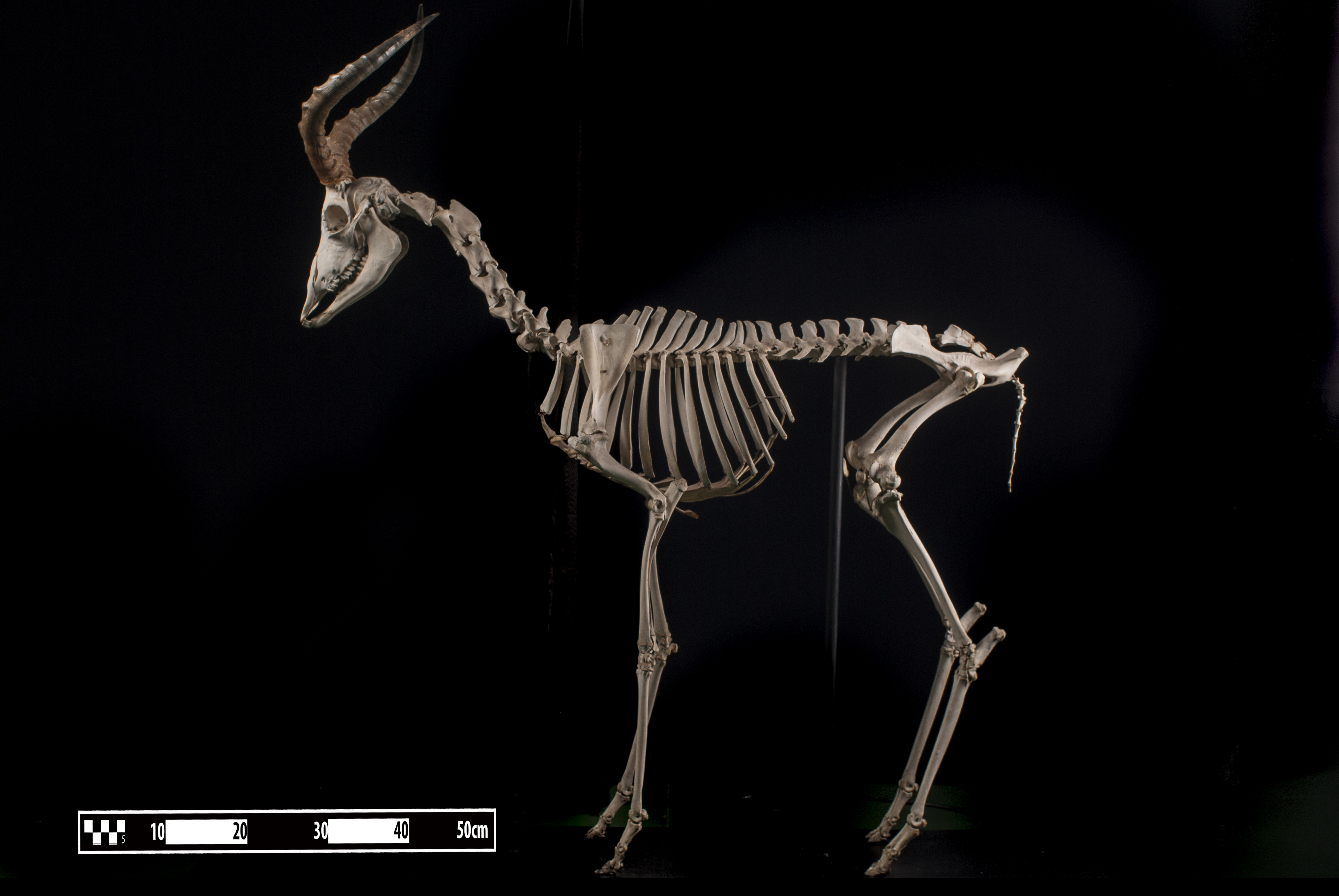 Impala skeleton. Aepyceros melampus”. Specimen of Impala skeleton prepared by the bone maceration technique and on display at the Museum of Veterinary Anatomy, FMVZ USP.